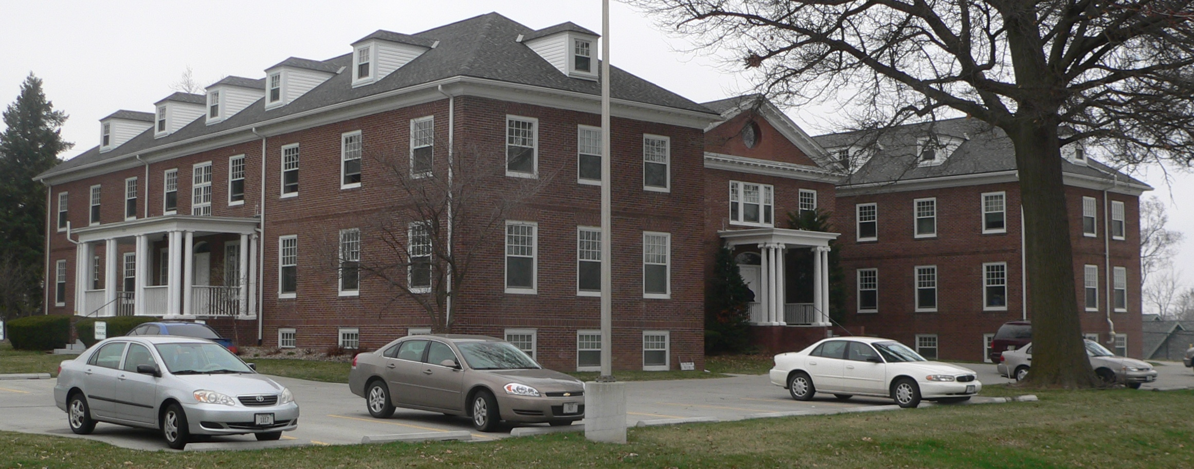 Leo Vaughn Senior Manor apartments, formerly Old People's Home, located at 3325 Fontenelle Boulevard in Omaha, Nebraska; seen from the southwest.